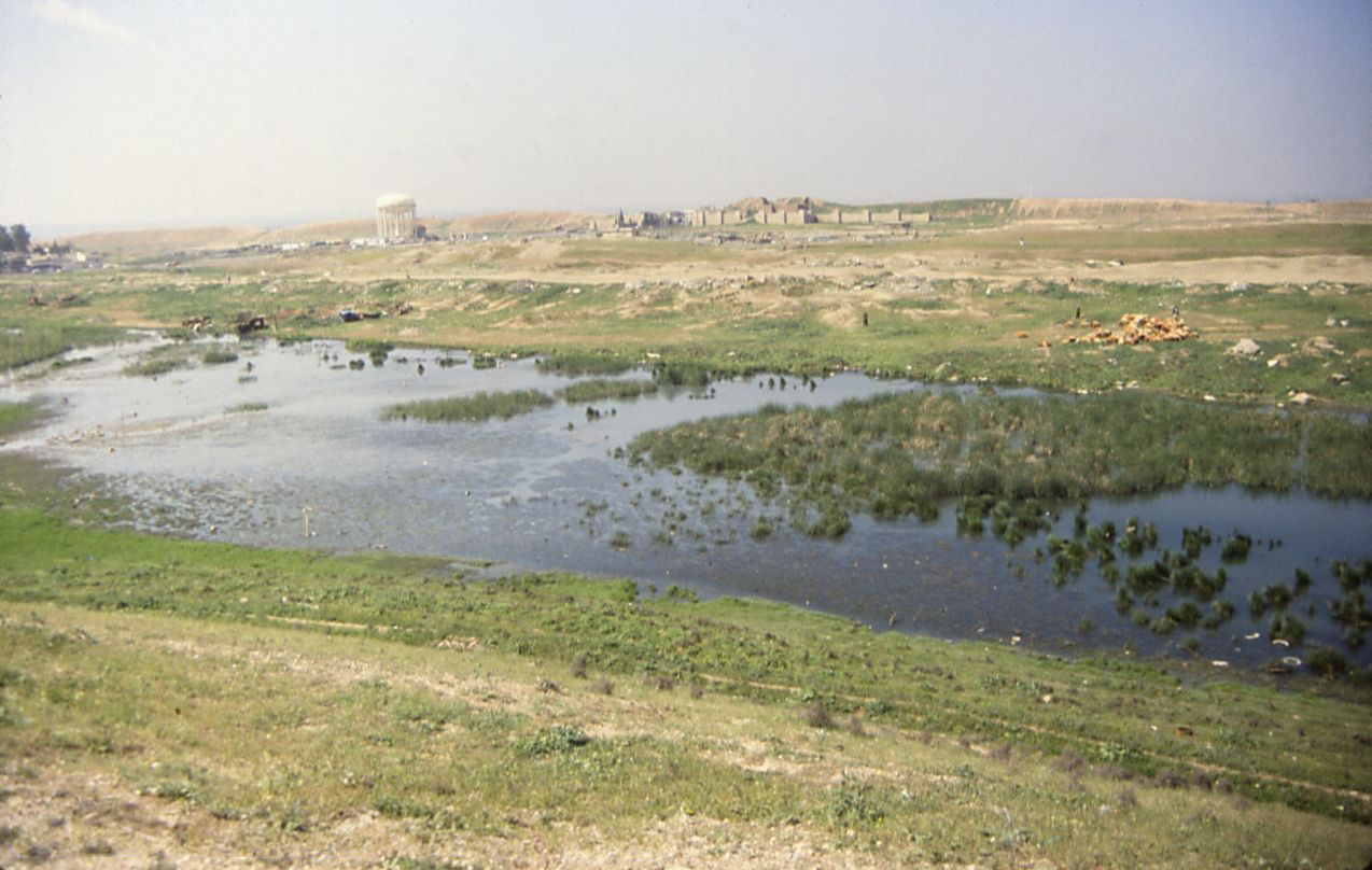 Nineveh. Mound of eastern city wall viewed from outer rampart to the east. Reconstructed Shamash Gate near center. The stone retaining wall and part of the mudbrick structure were reconstructed in the 1960s. The stone wall projects outward about 20 m. from the line of main wall for a length of about 70 m. It is the only gate with such a significant projection. The mound of its remains towers above the surrounding terrain. Its size and design suggest it was the most important gate in Neo-Assyrian times. The stone towers are spaced about every 18 m. Photo by Fredarch.